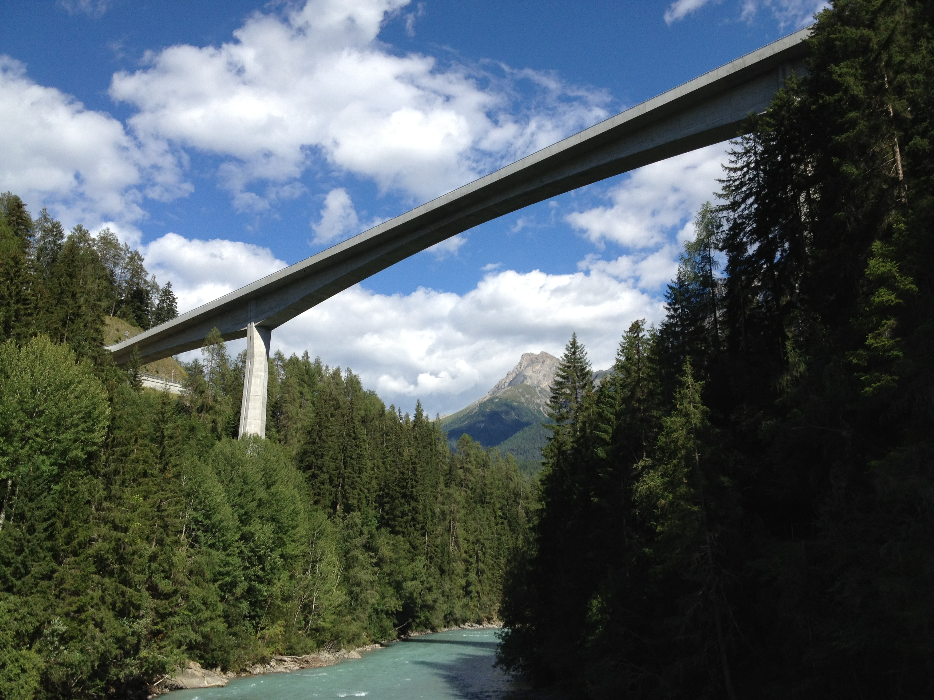 Bridge over the Inn River near Scuol